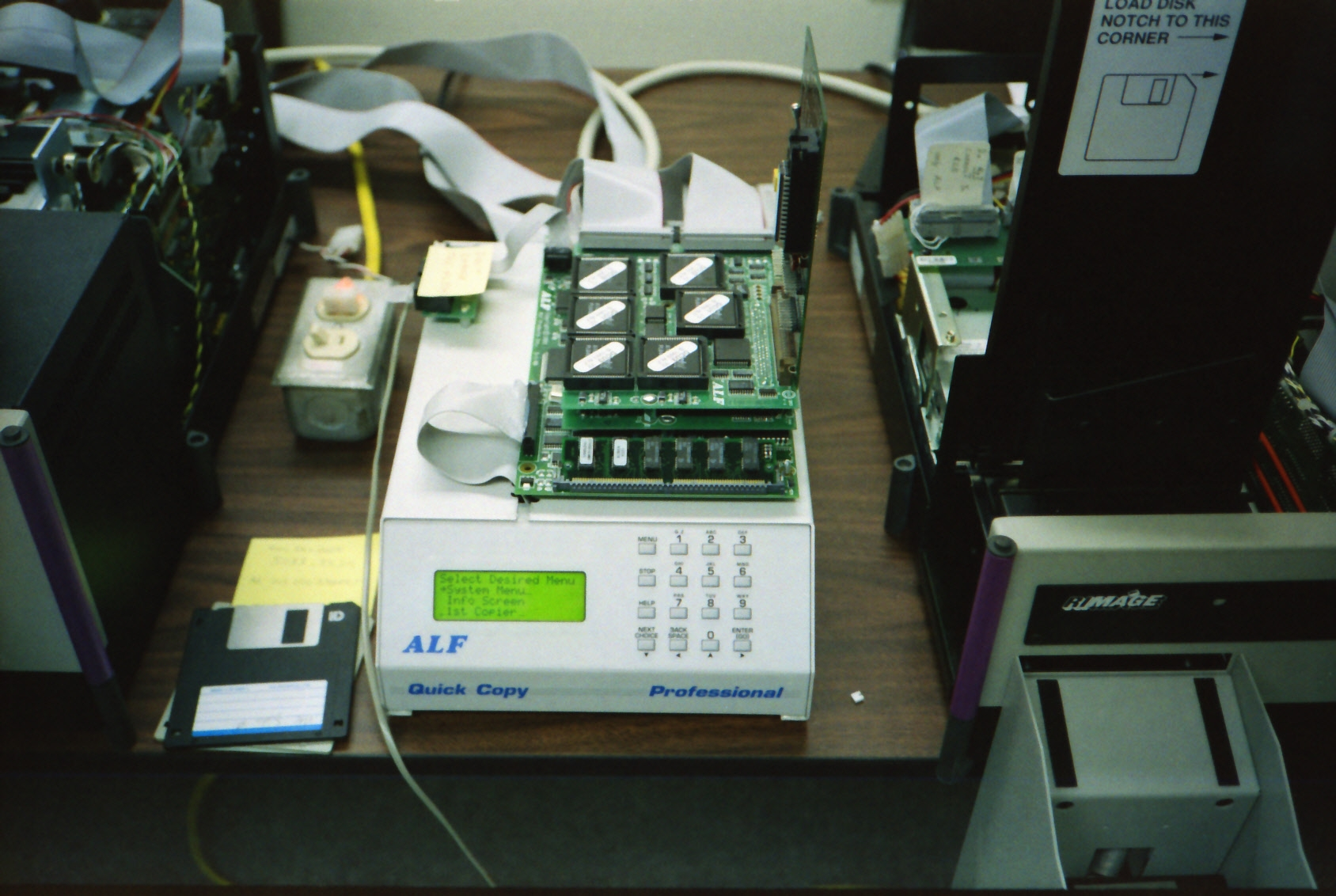 Prototype of ALF Products' Pro-Series disk copier.